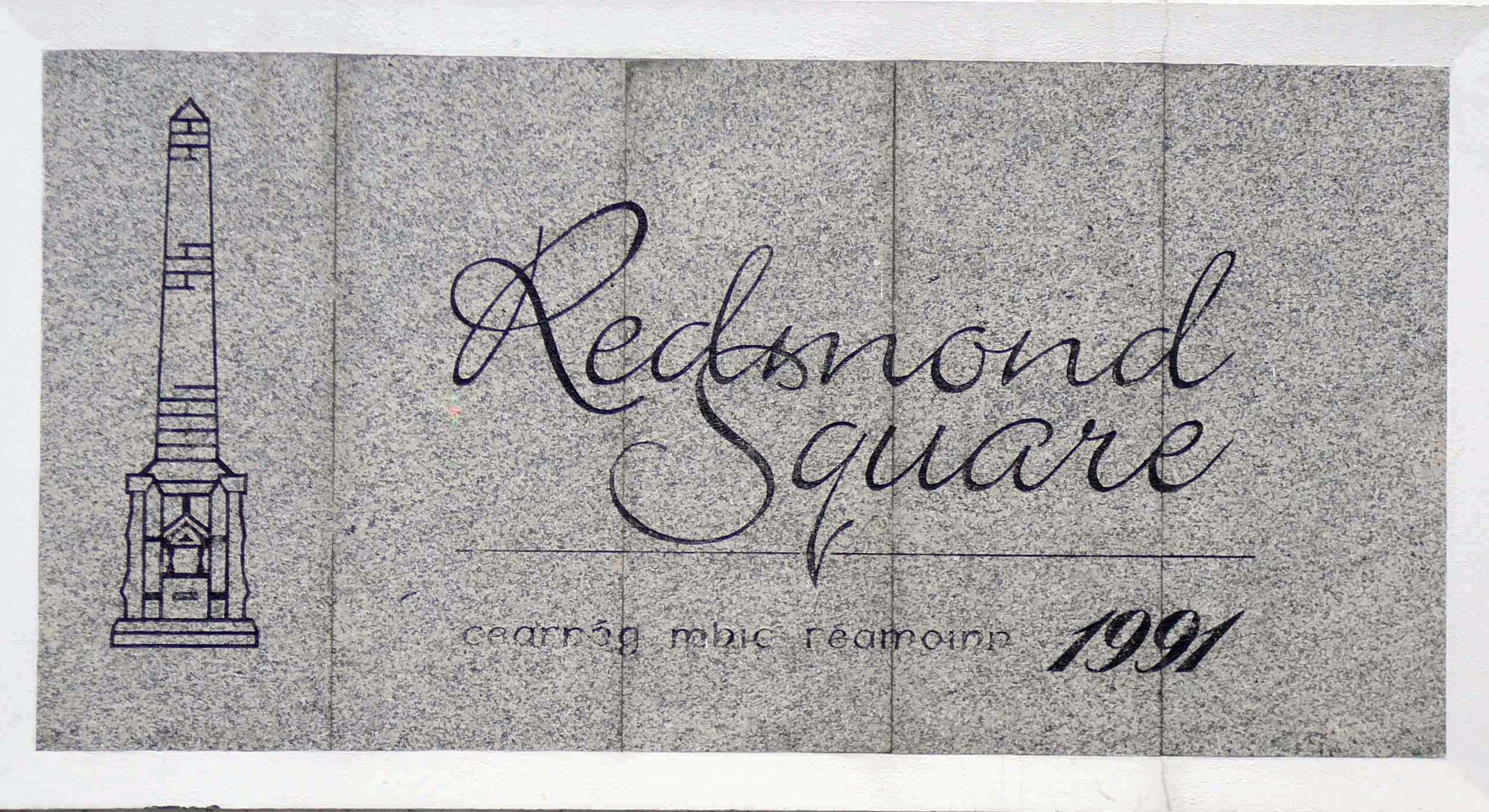 Large scale wall plaque beside Redmond Square and the Redmond Monument, Wexford city, the square and monument originally dedicated to commemorate John Edward Redmond (1806-1865), MP.